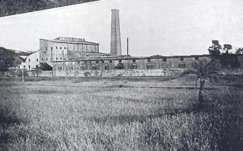 EID Parry & Co. refinery at Samalkota